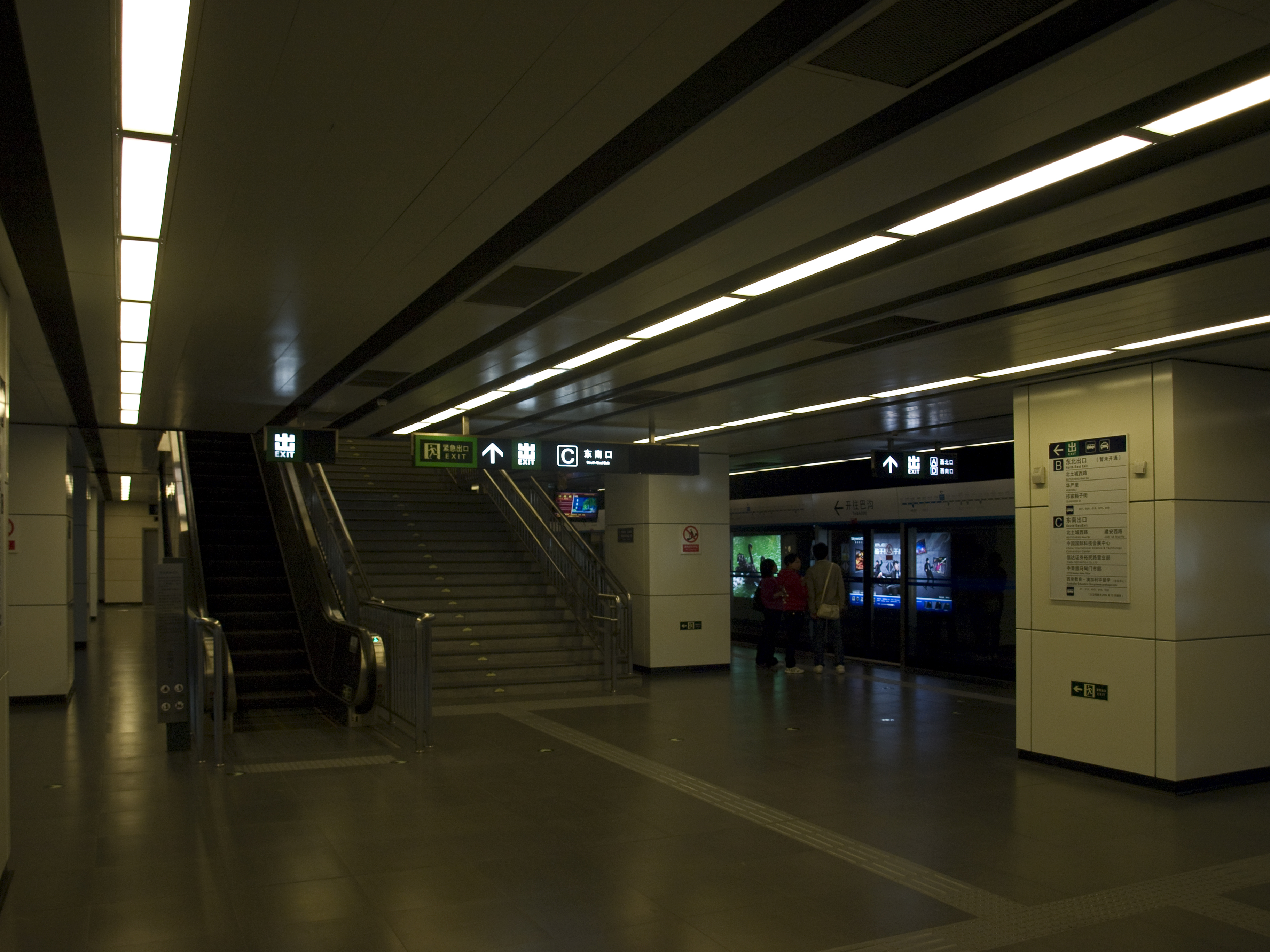 Jiandemen station, Beijing Subway